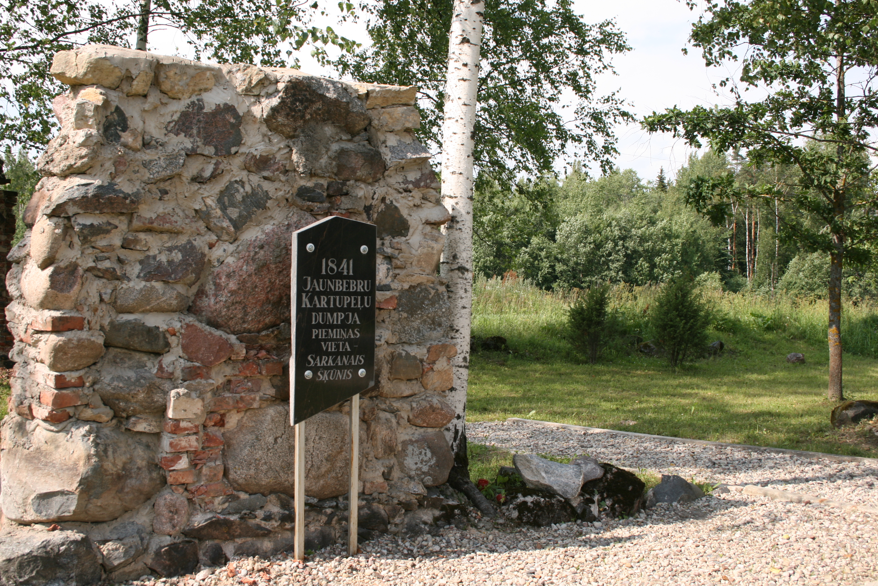 Potato insurrection memorial site Red barn